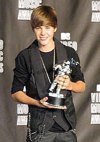 Justin Bieber at 2010 MTV Video Music Awards.